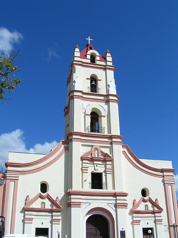 Church of Nuestra Señora de la Merced, Camagüey, Cuba.